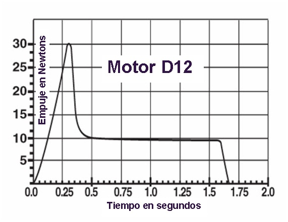 Model rocket engine Thrust curve.